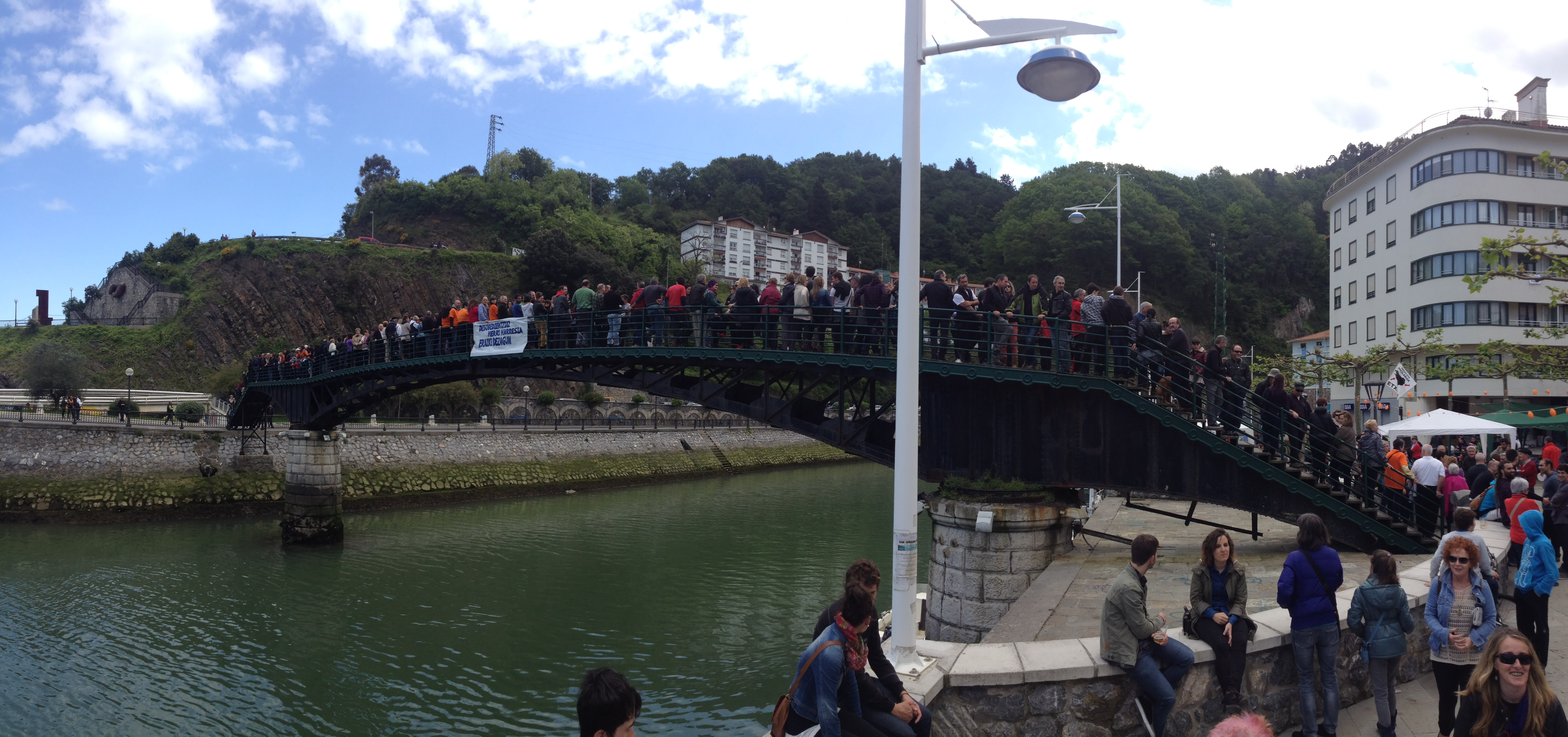 Pacific resistance against arrest of Urtza Alkorta, in Ondarroa, Basque Country.